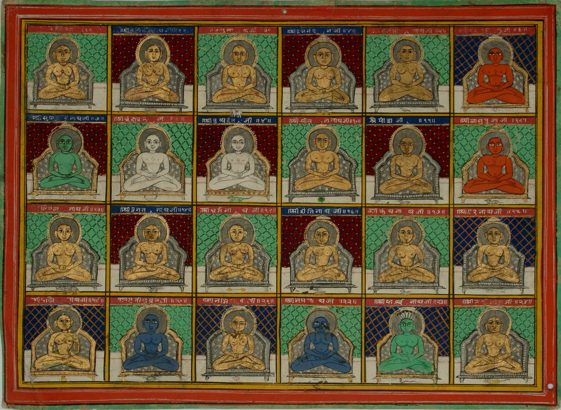 Jain Miniature Painting of 24 Jain Tirthankaras from Jaipur circa 1850